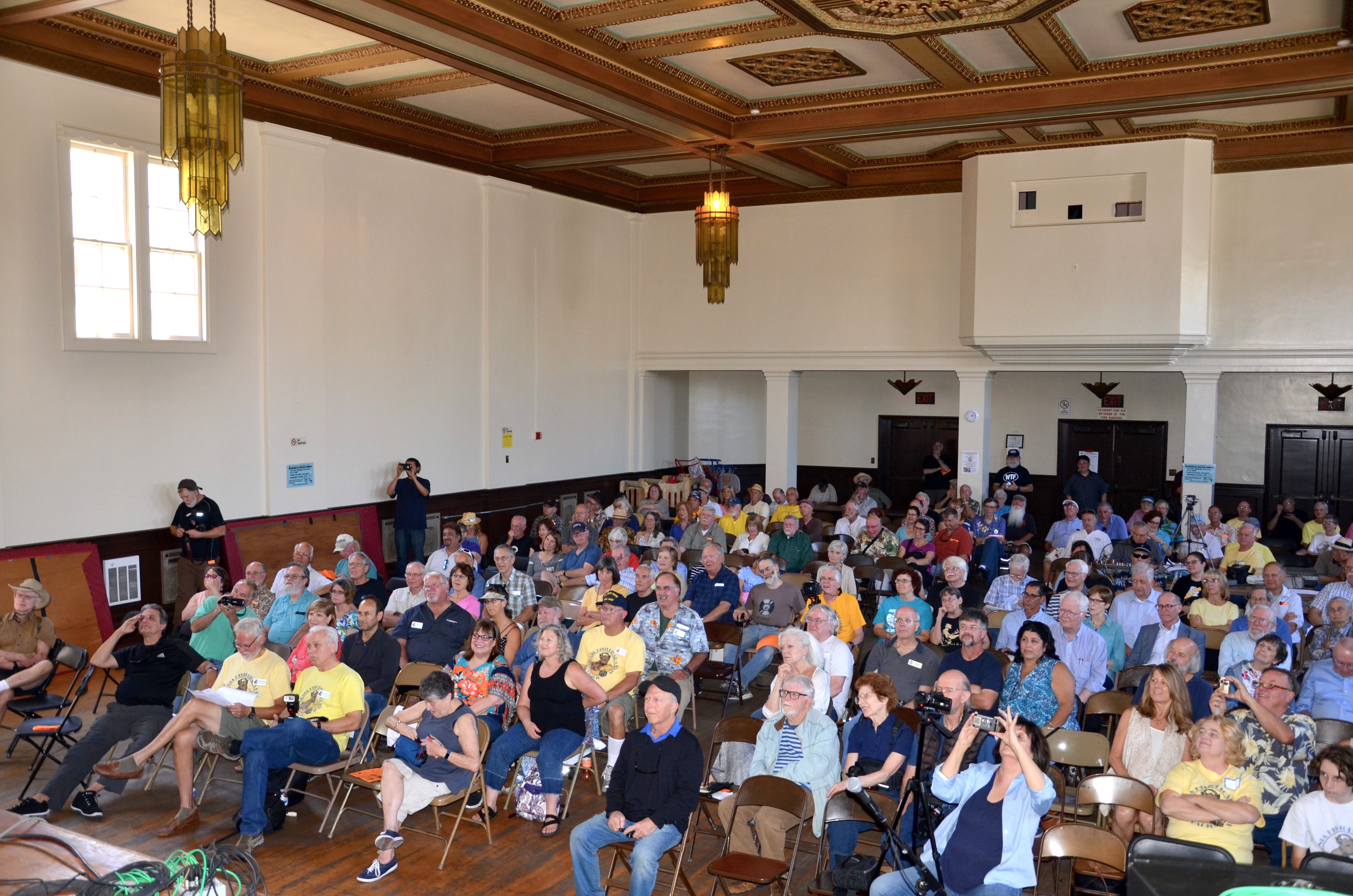 A good crowd at Radio Day by the Bay 2017, in Alameda -- a CHRS fundraiser, photo Mike Adams